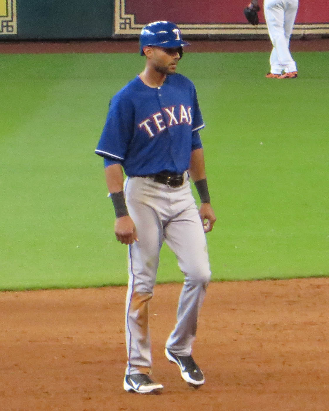 Alex Ríos of the Texas Rangers, Minute Maid Park, August 2013